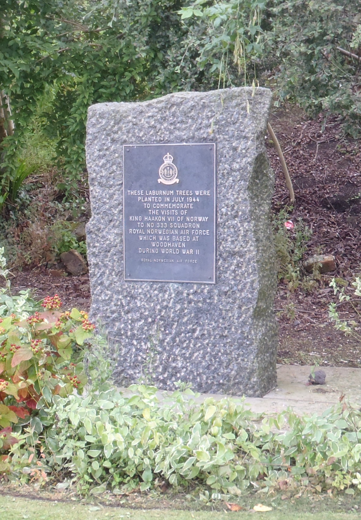 Monument in Woodhave, Fife.